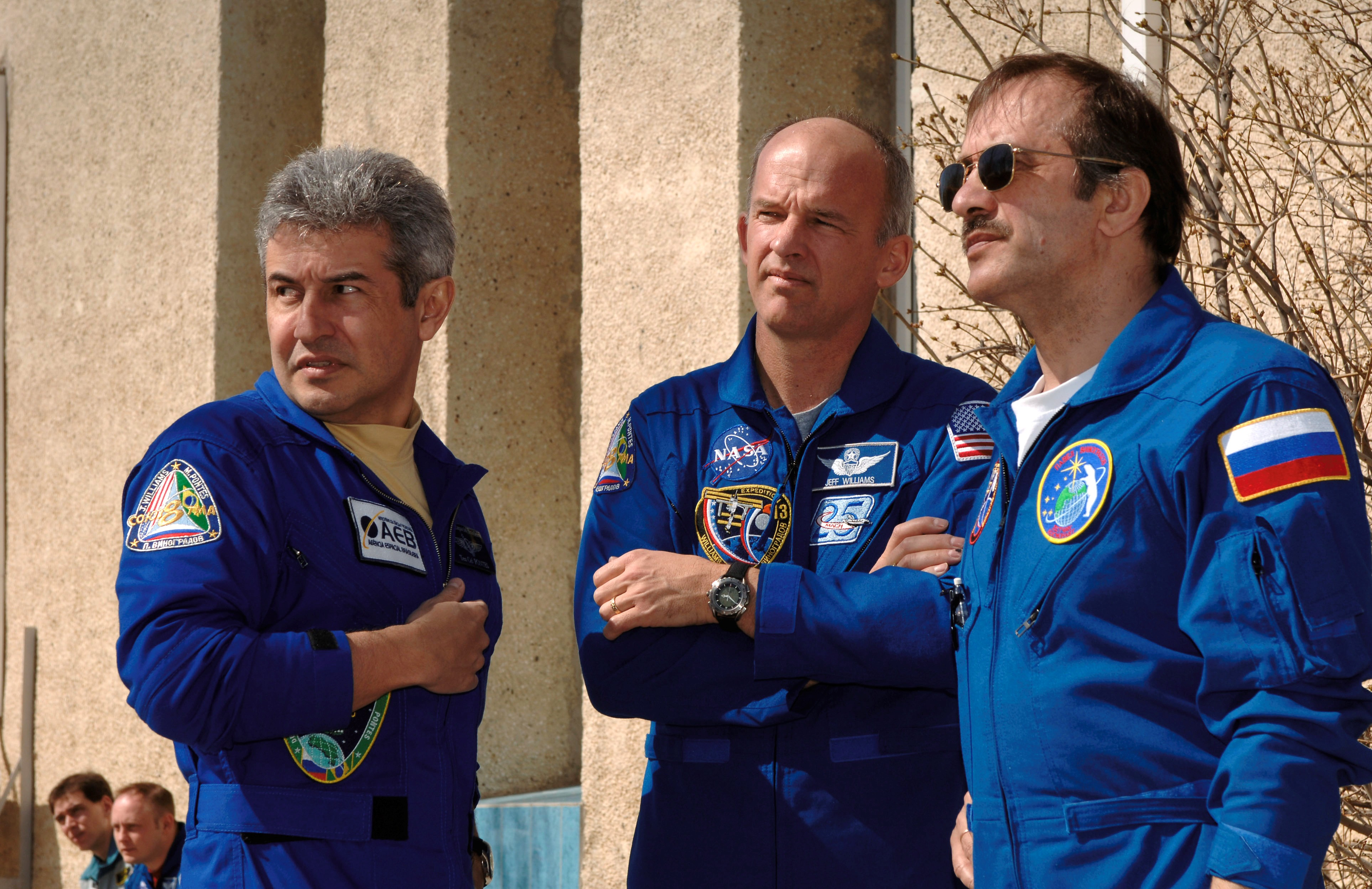 Astronaut Marcos Pontes (left), Brazilian Space Agency’s Soyuz crew member, astronaut Jeffrey N. Williams (center), Expedition 13 NASA International Space Station science officer and flight engineer, and cosmonaut Pavel V. Vinogradov, Russia’s Federal Space Agency Expedition 13 commander, take a break from their training at the Cosmonaut Hotel in Baikonur, Kazakhstan, days before their launch on a Soyuz spacecraft.